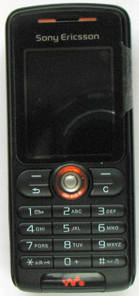 Sony Ericsson W200i front